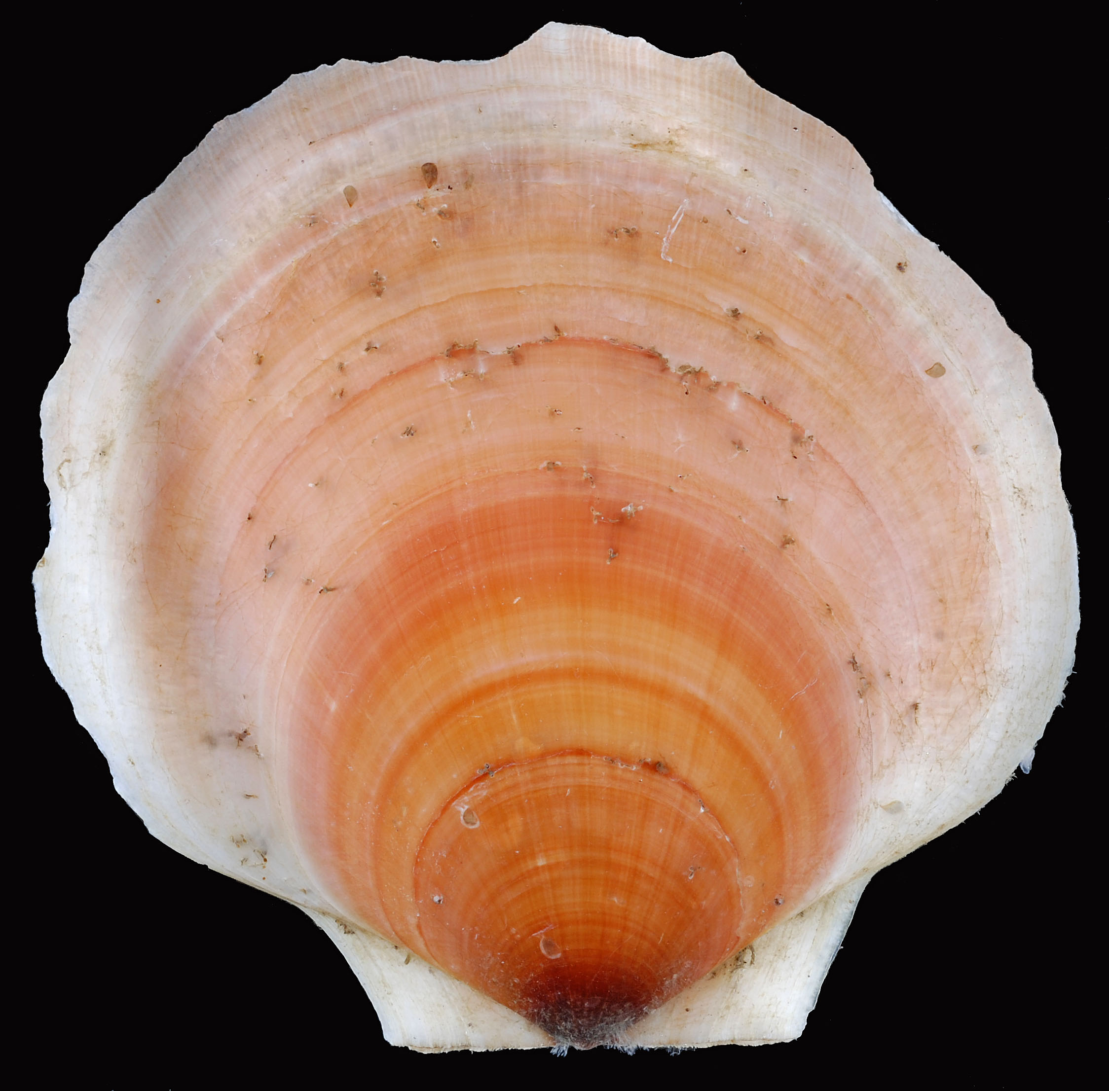 Placopecten magellanicus, sea scallop, 95 mm shell length. Seventy-five miles offshore of Brigantine, NJ. Collected by VIMS Scallop Survey. Photo by Robert Aguilar, Smithsonian Environmental Research Center.